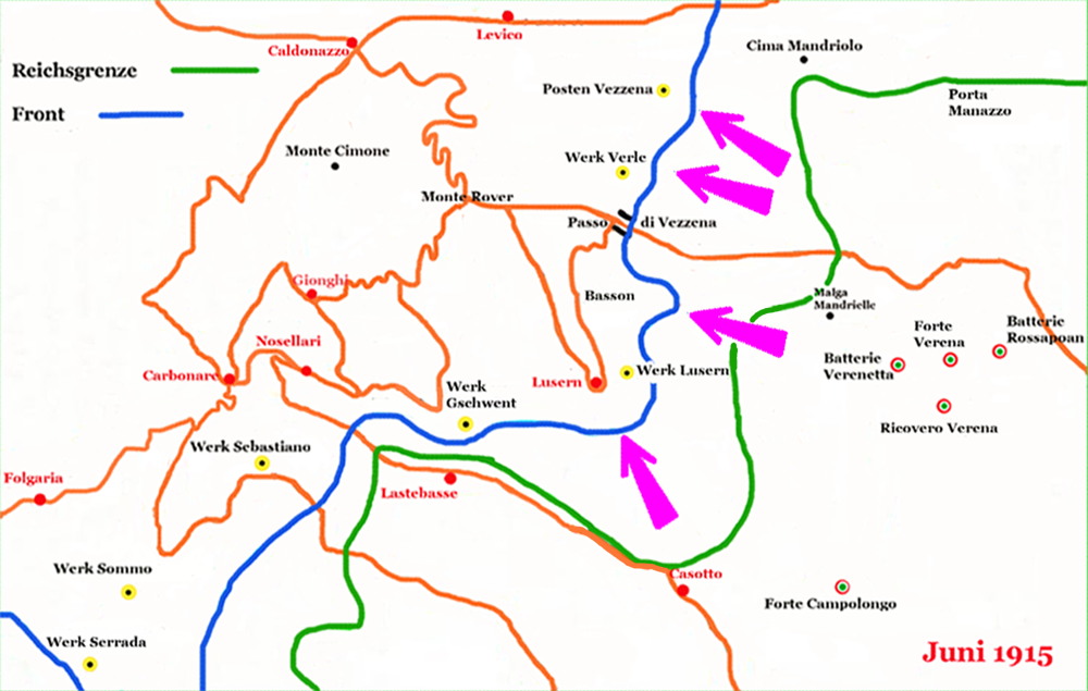 Map of the austro-hungarian front to Italy near Trient after outbreak of the war in 1915